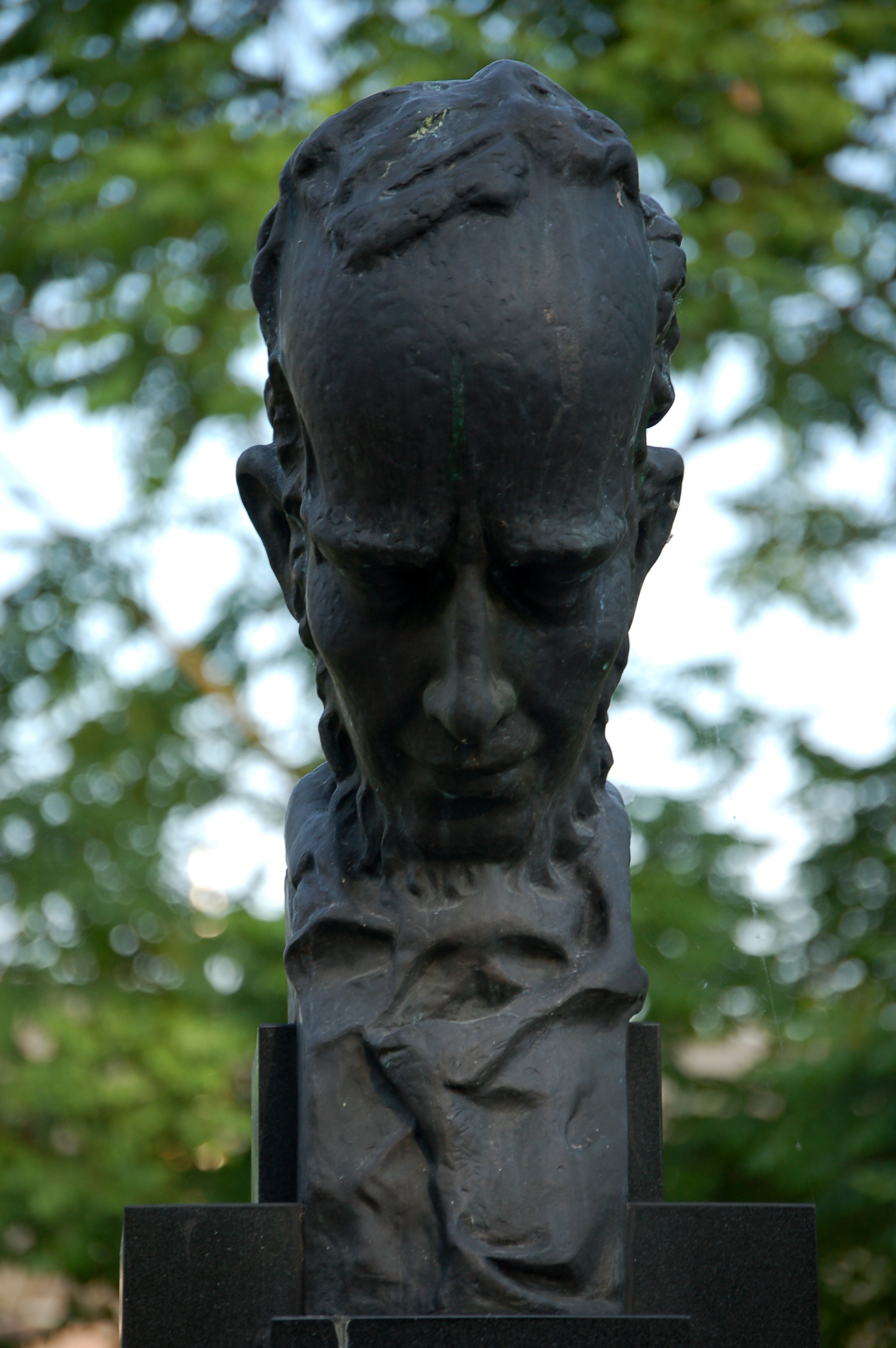 Memorial of the german dramatist Christian Dietrich Grabbe in Düsseldorf